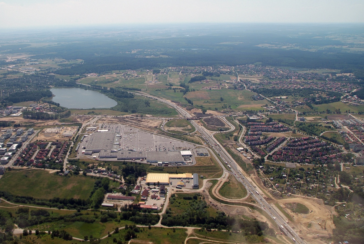 Freeway "S6" in Gdańsk Karczemki